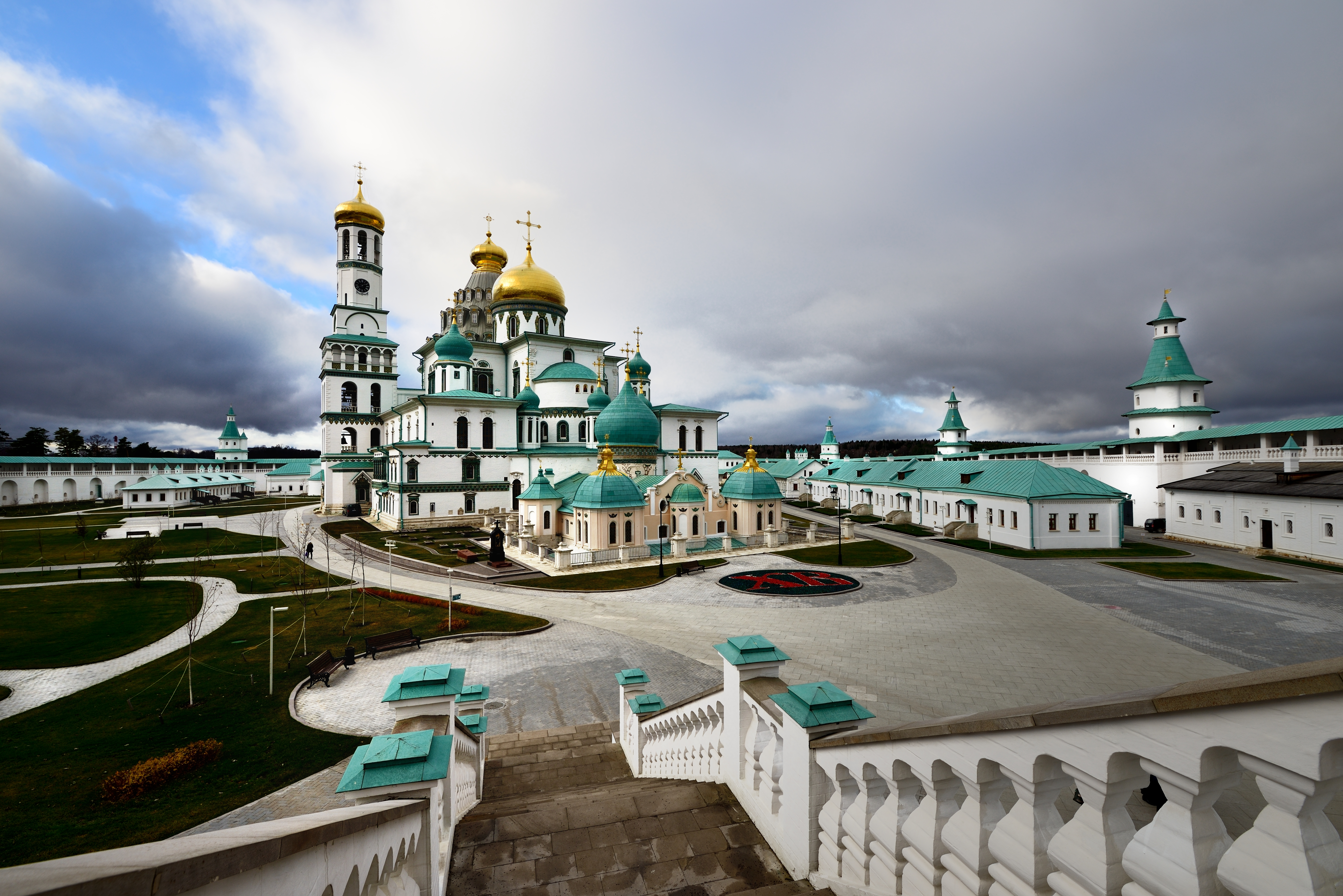 Voskresensky new-Jerusalem Stavropegial monastery, Moscow oblast, the view from the wall